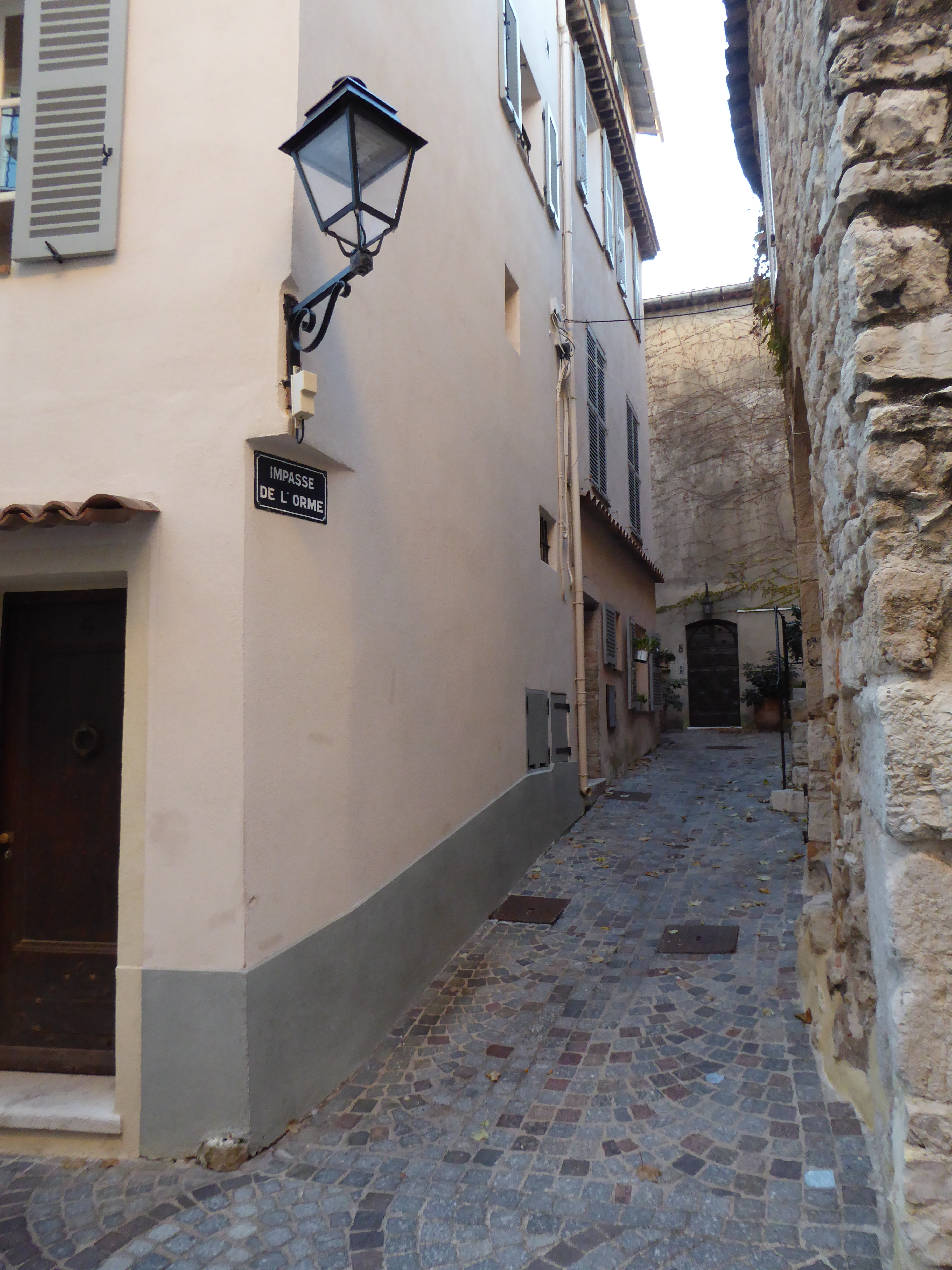 rue orme